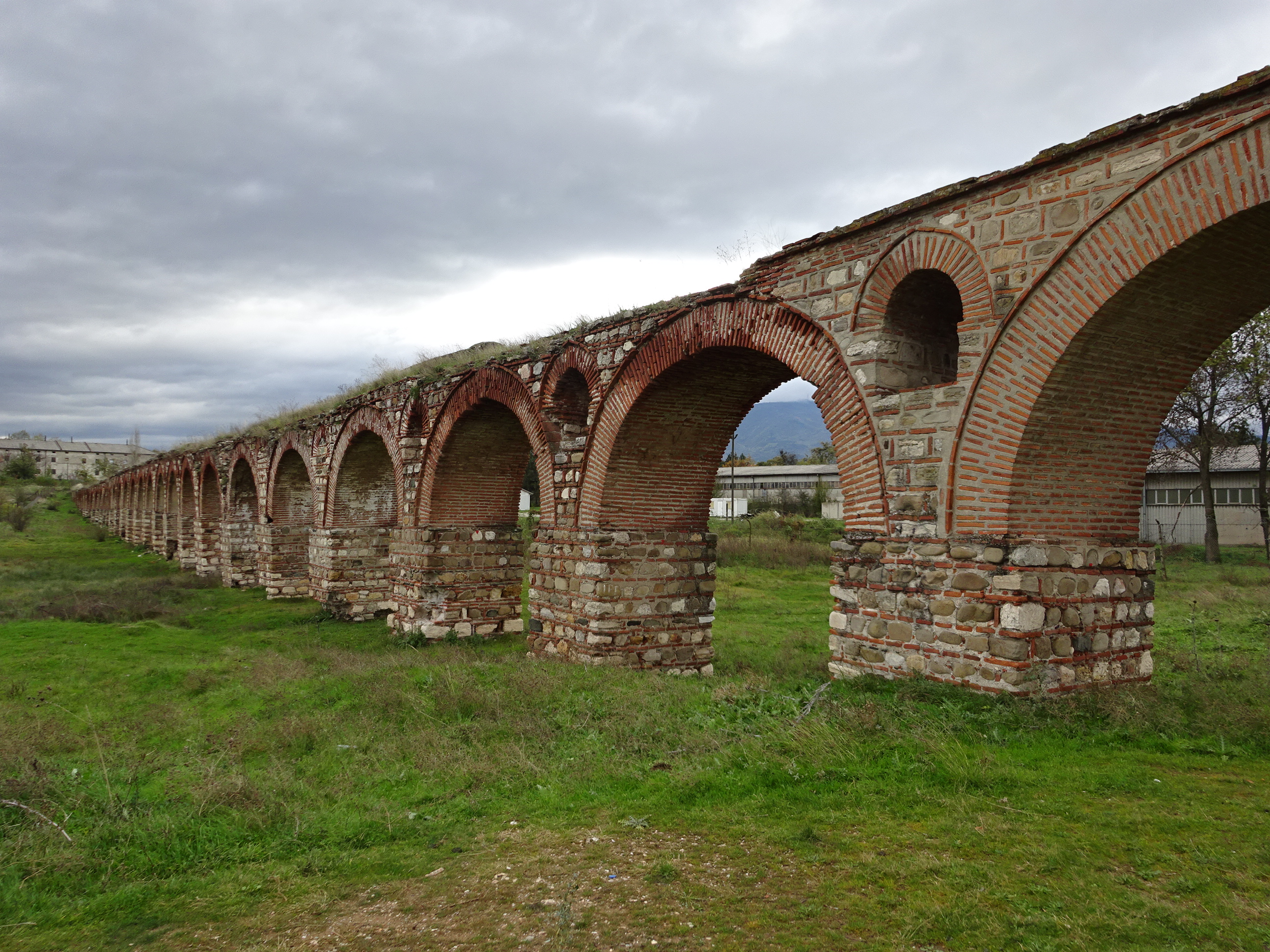 Aqueduct, Macedonia Ова е фотографија на споменик на културата во Македонија со типски код: XThis is a a photo of a cultural monument in North Macedonia with type id: X